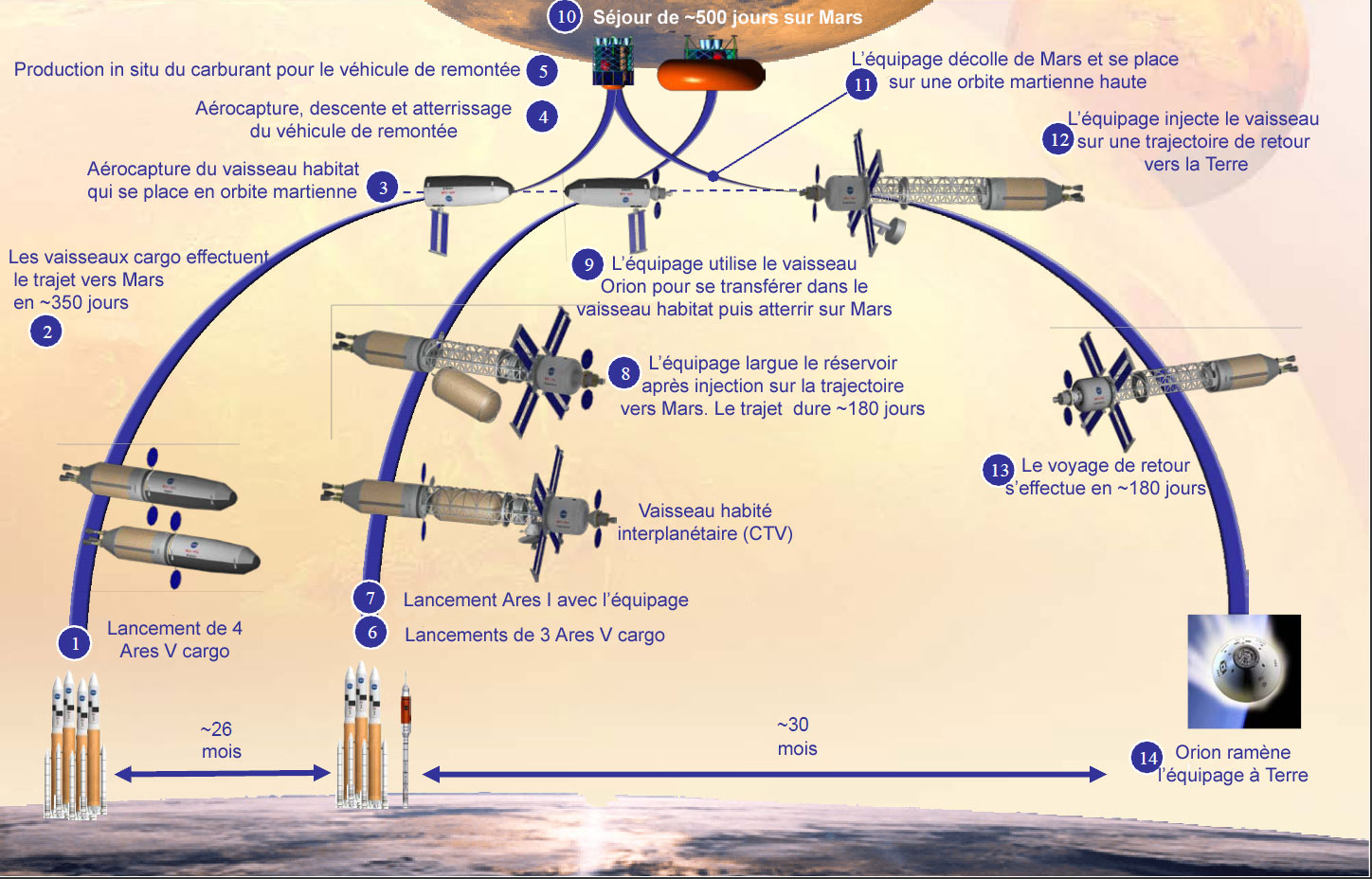 NASA Human Exploration of Mars Design Reference Architecture 5.0 (french version)